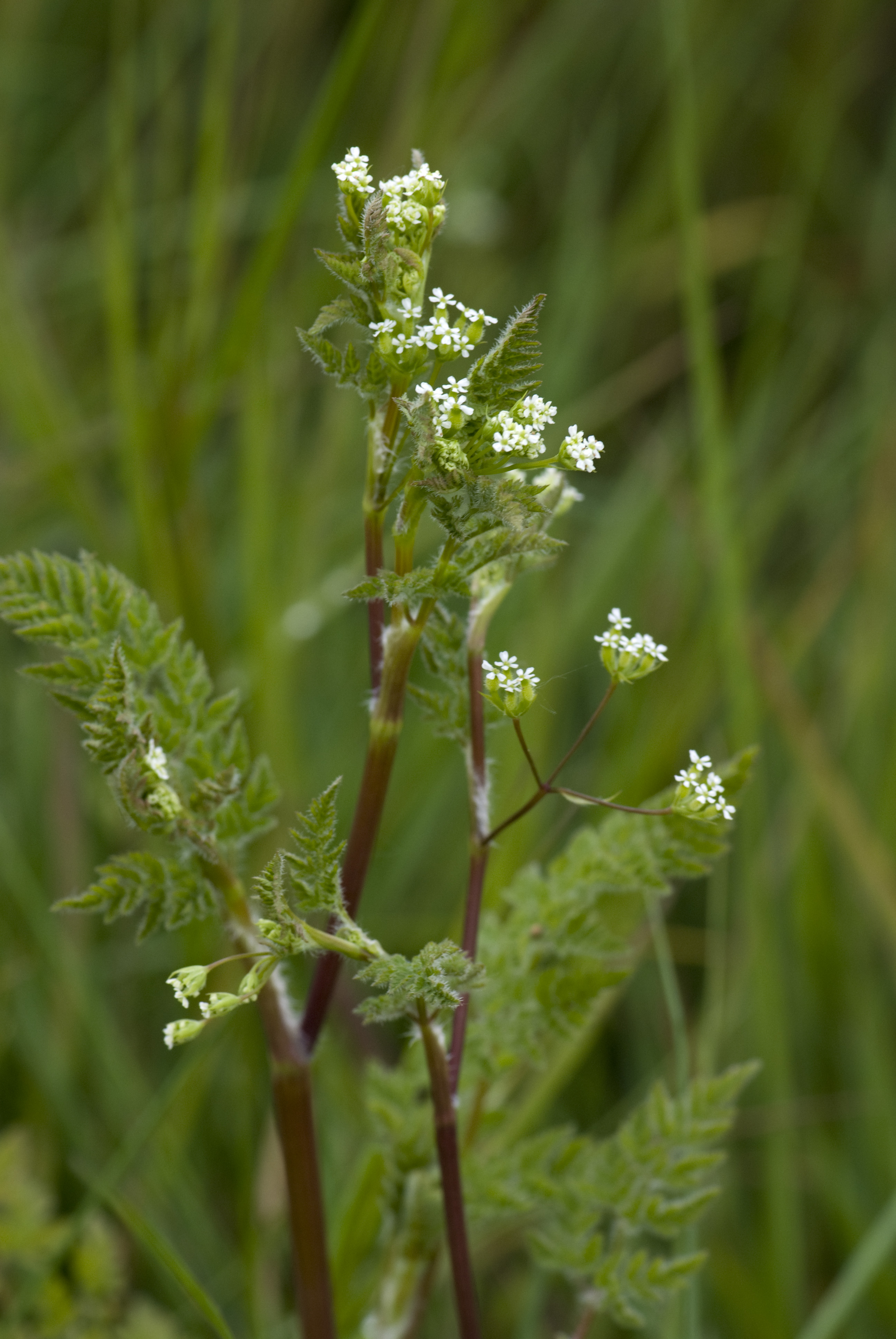 Anthriscus caucalis in the Baie d'Authie (Somme), France